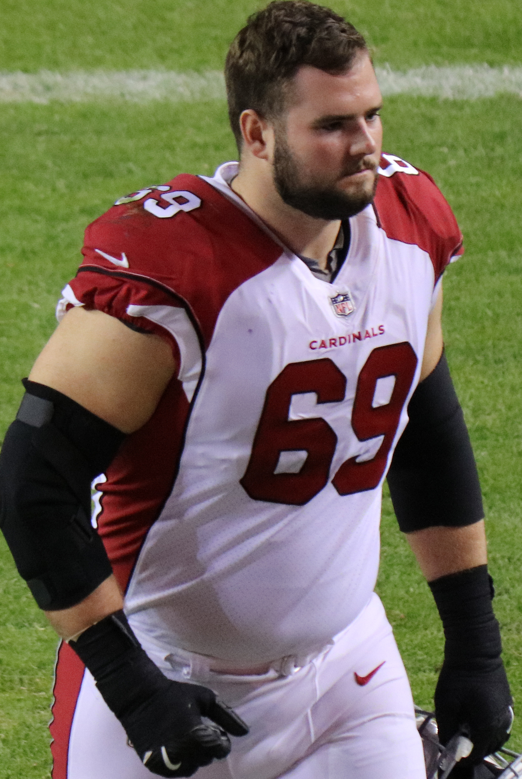 Will Holden, a player on the National Football League.